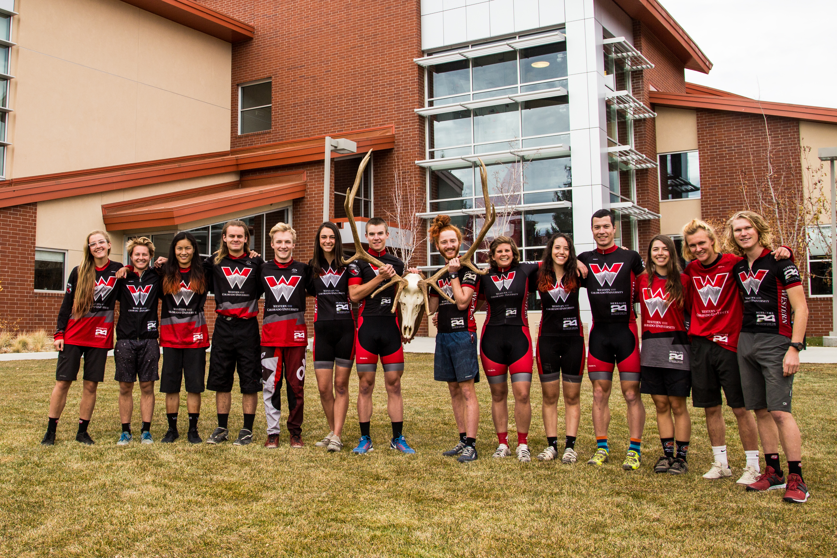 The Western Colorado University Mountain Bike Team poses after winning the DII Varsity National Title